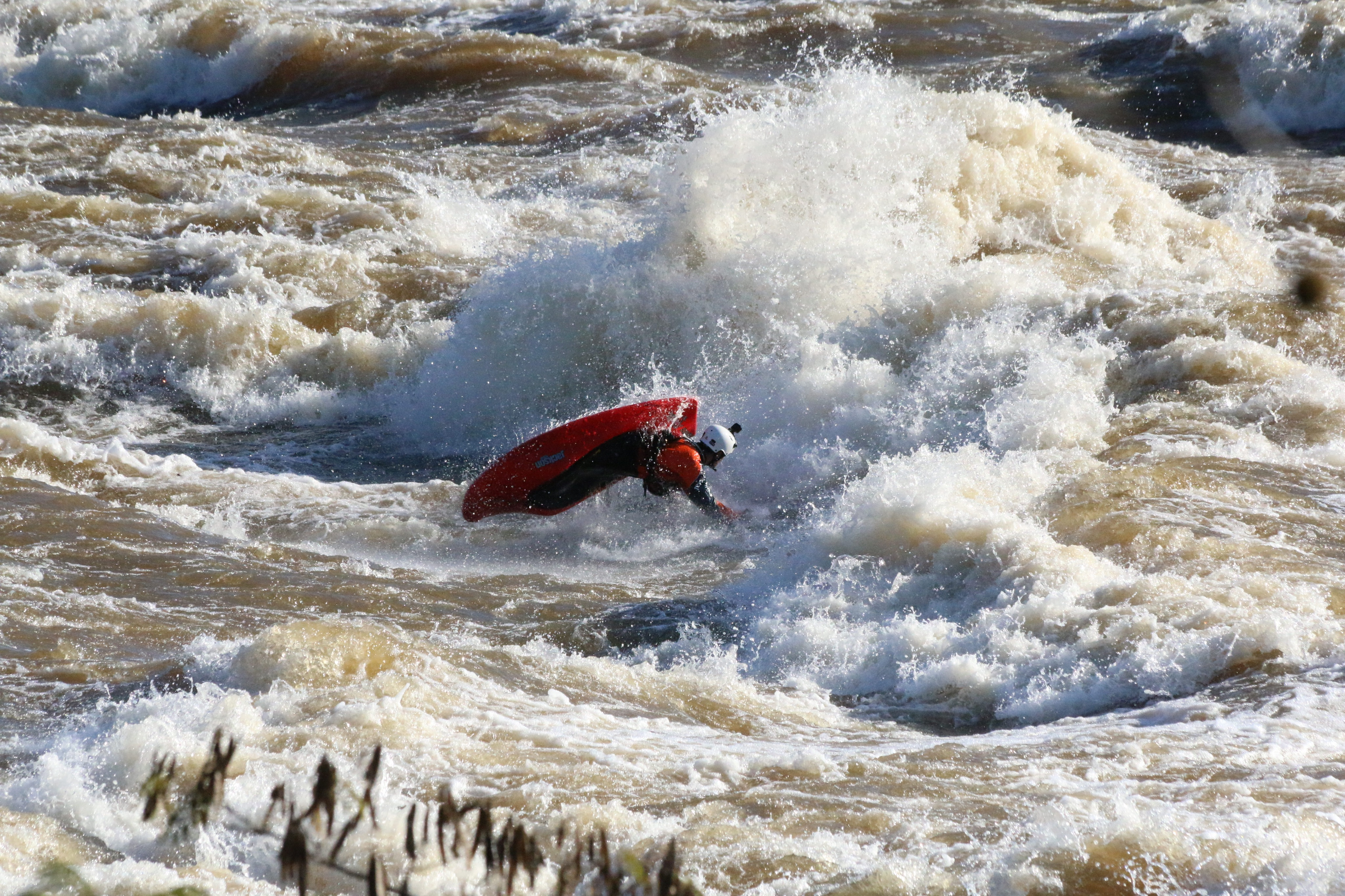 I met Bennett Smith in Columbus, GA and took this picture of him. This is Bennett Smith "Freestyle Kayaking" in the Chatahoochee River. Freestyle Kayaking is a sport in which kayakers surf in stationary river waves and do flips and tricks.